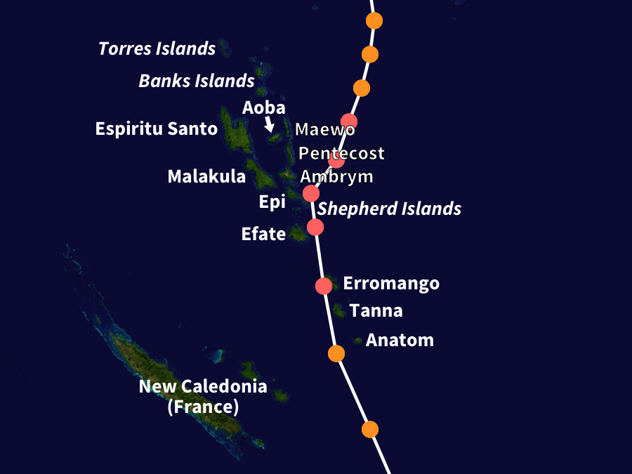 Track map of Severe Tropical Cyclone Pam of the 2014-15 South Pacific cyclone season. The points show the location of the storm at 6-hour intervals. The colour represents the storm's maximum sustained wind speeds as classified in the Saffir-Simpson Hurricane Scale (see below), and the shape of the data points represent the nature of the storm, according to the legend below. Saffir–Simpson hurricane wind scale Tropical depression ≤38 mph ≤62 km/h Category 3 111–129 mph 178–208 km/h Tropical storm 39–73 mph 63–118 km/h Category 4 130–156 mph 209–251 km/h Category 1 74–95 mph 119–153 km/h Category 5 ≥157 mph ≥252 km/h Category 2 96–110 mph 154–177 km/h Unknown Storm type Tropical cyclone Subtropical cyclone Extratropical cyclone / Remnant low / Tropical disturbance